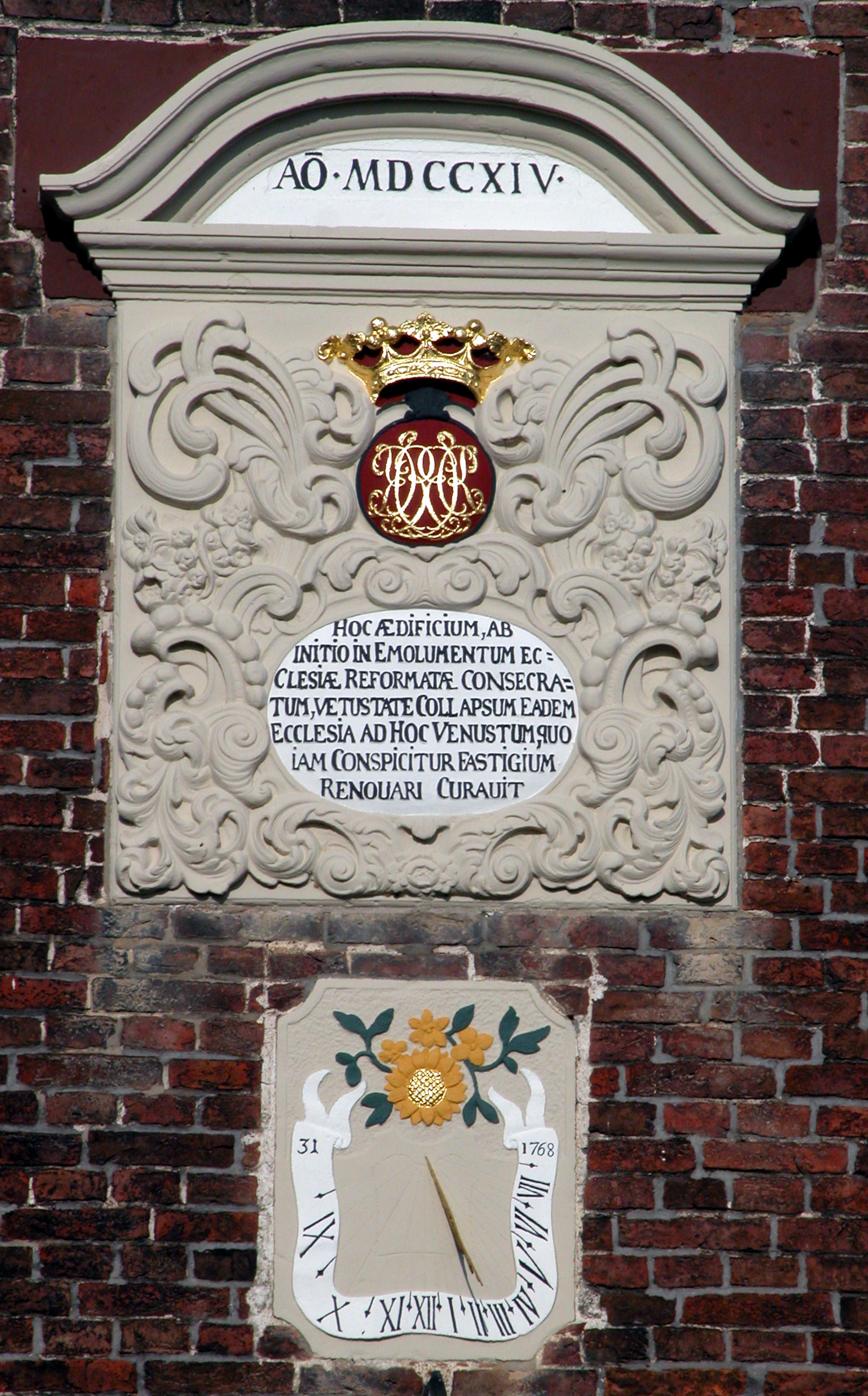 Coat of Arms and Sundial at Leer in Lower Saxony / Germany